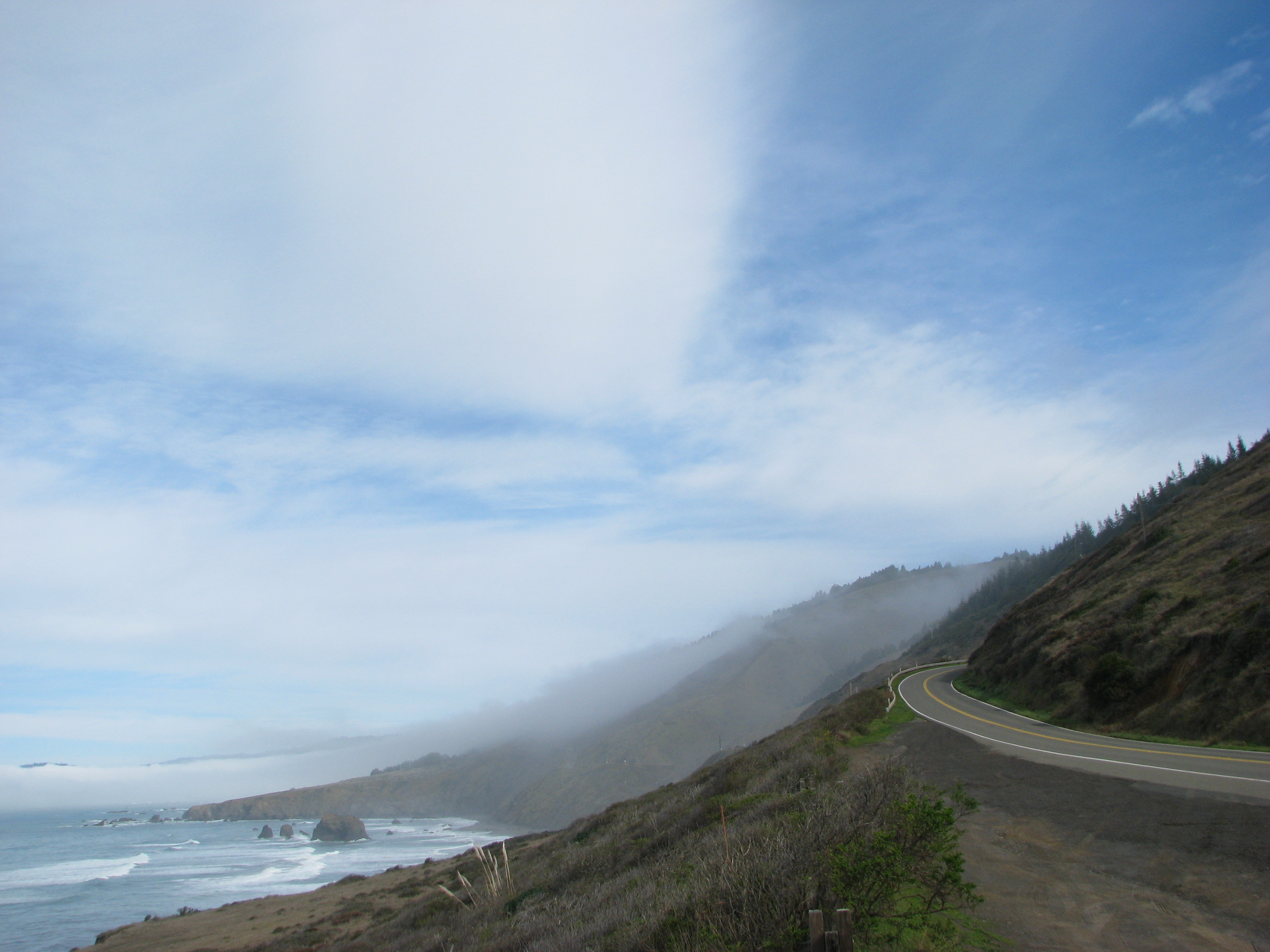 Ca-1 somewhere between Fort Bragg and Leggett (1).